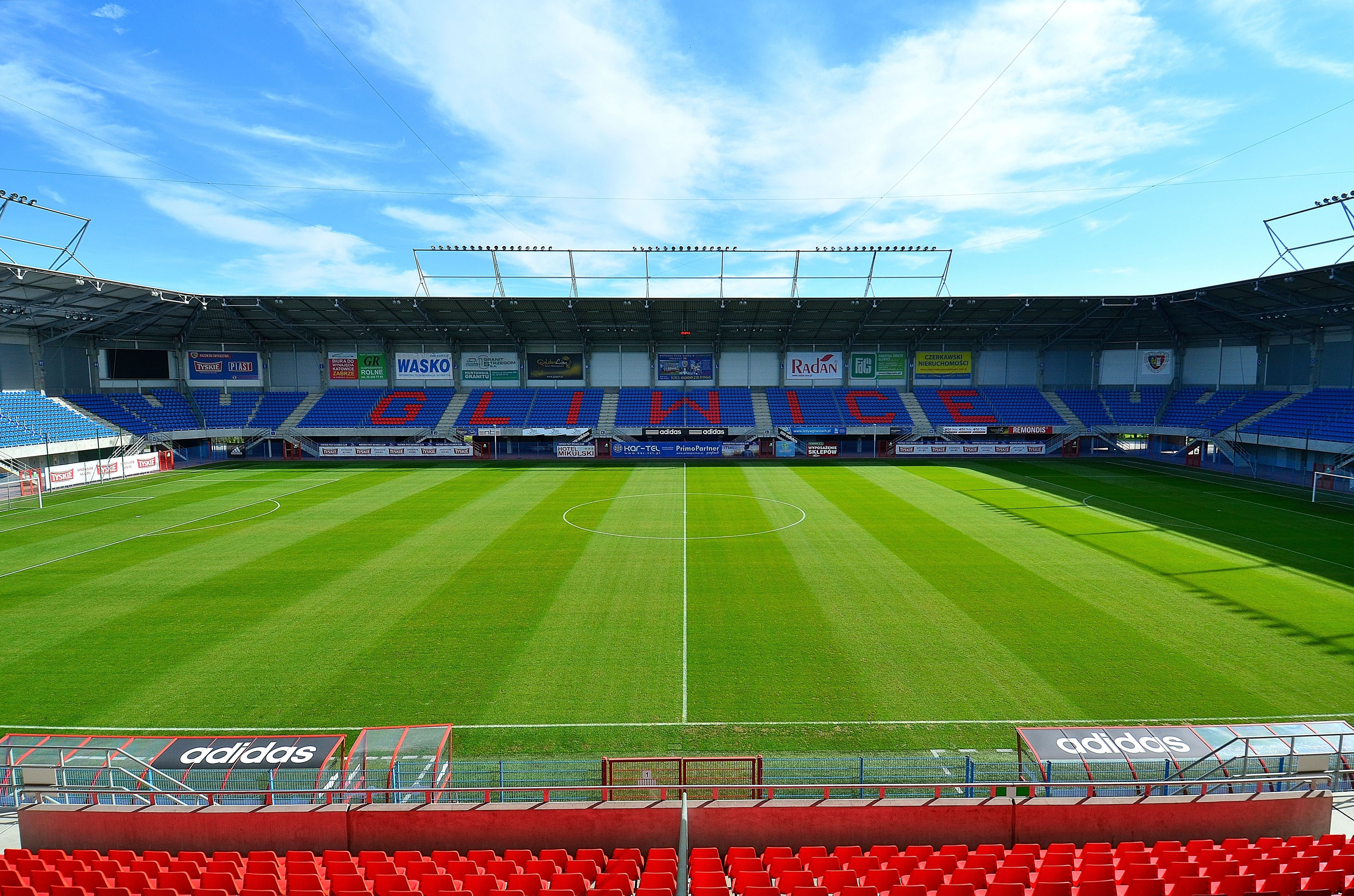 Piast Gliwice football stadium at 20 Okrzei Street in Gliwice